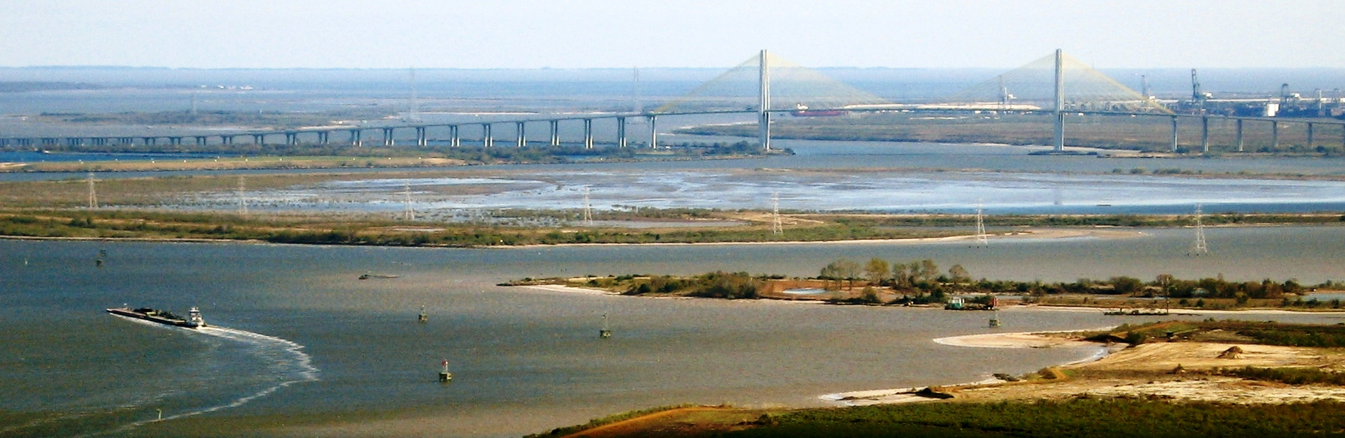 Picture of the Fred Hartman Bridge and the Houston Ship Channel taken from the top of the San Jacinto Monument in Texas. Photo taken by uploader User:SamuelWantman.